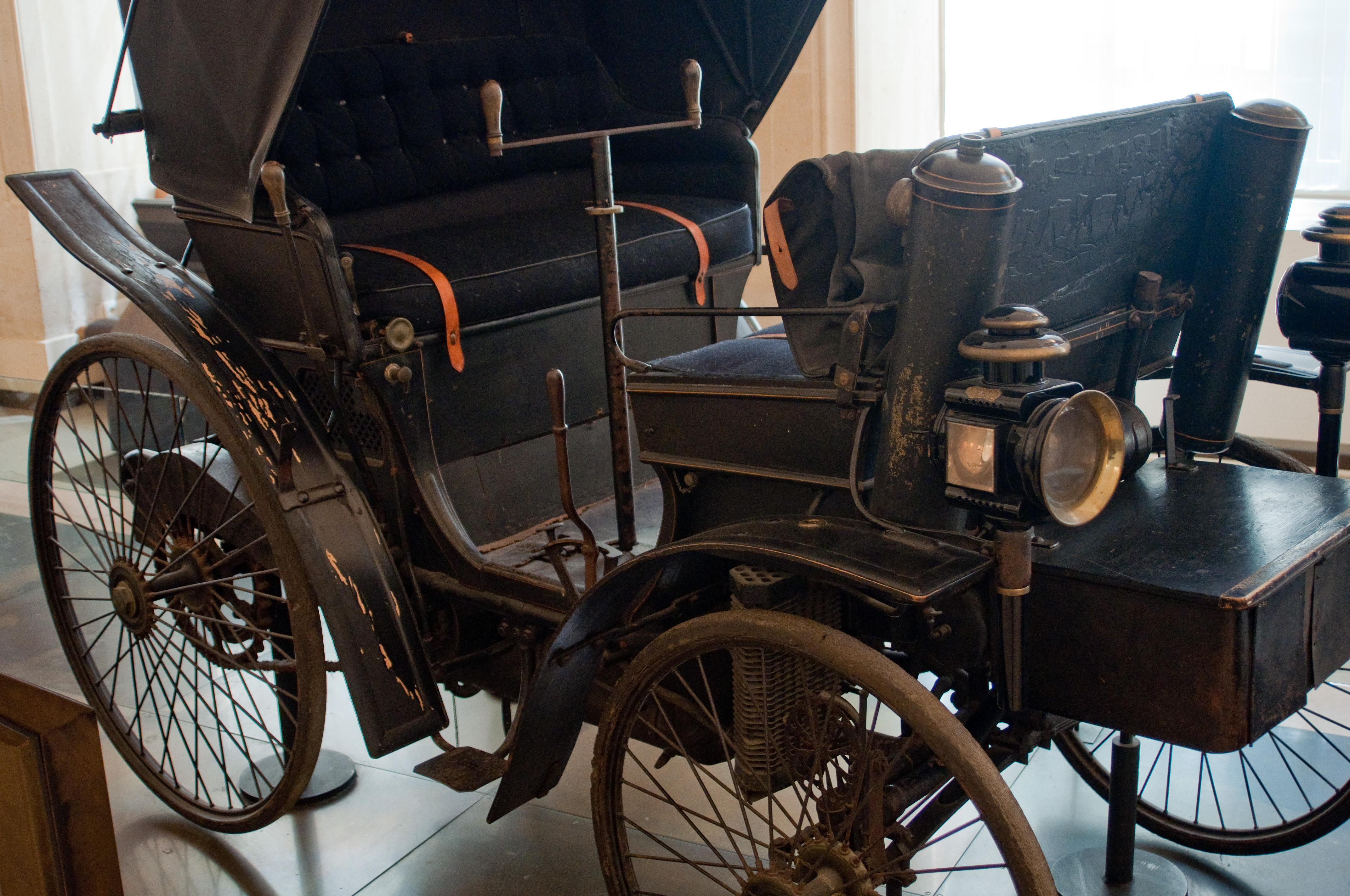 Peugeot quadricycle Type 3; 1893